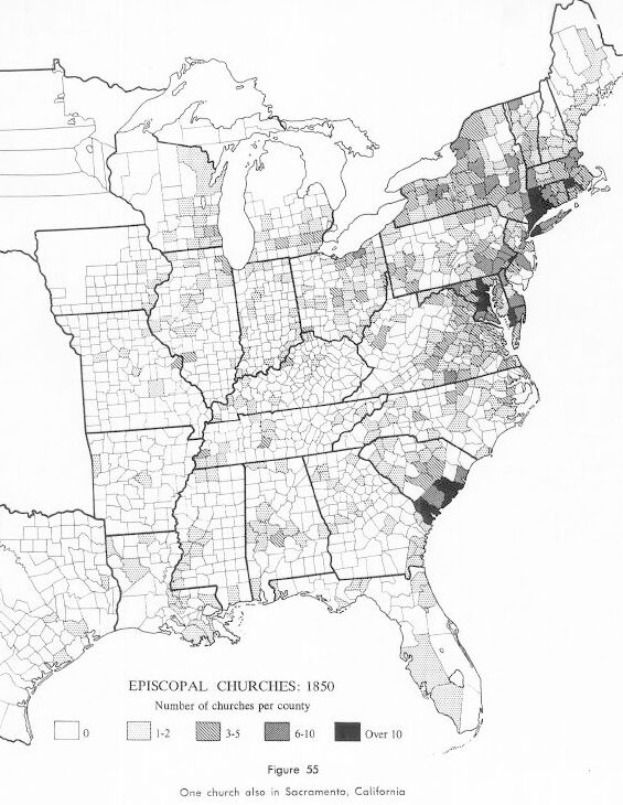 Map from US Census Atlas of 1870 # Episcopal churches